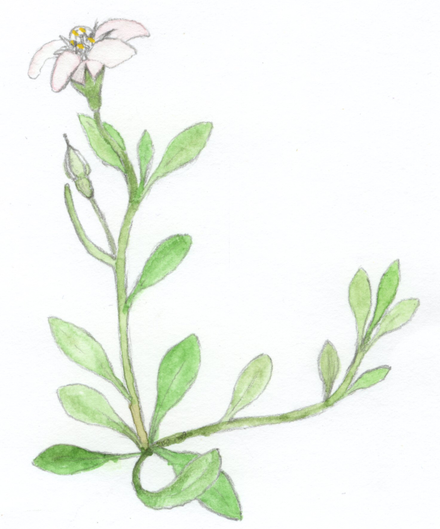 Watercolour of creeping brookweed (Samolus repens)